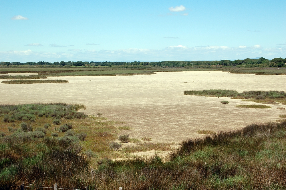 Aigues-Mortes, Camargue, France